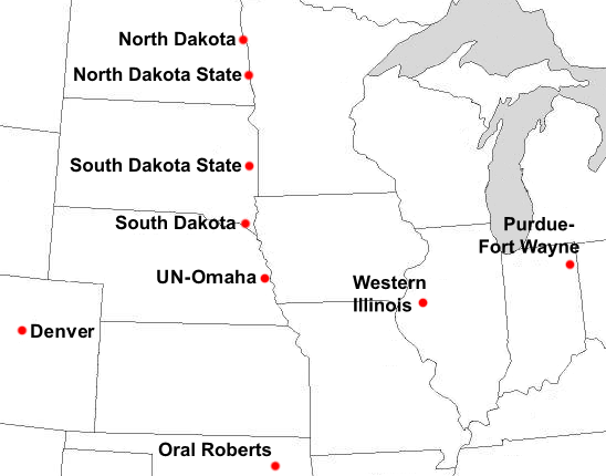 Oakland is no longer a memebr of the Summit League, please edit this map. Personal creation in GIMP; All rights released to the public to do whatever they want with it.